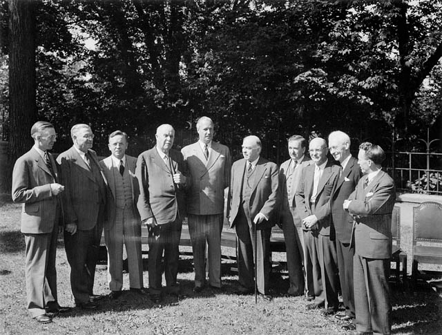 Rt. Hon. W.L. Mackenzie King, with the Premiers of the Provinces and the ministers of the federal Cabinet, at the Dominion-Provincial Conference on Reconstruction.